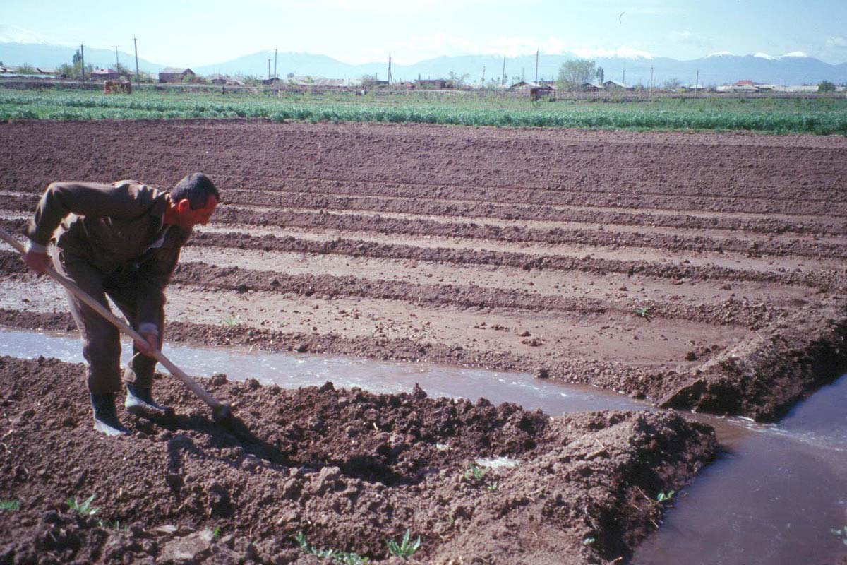 Land preparation and furrow irrigation.